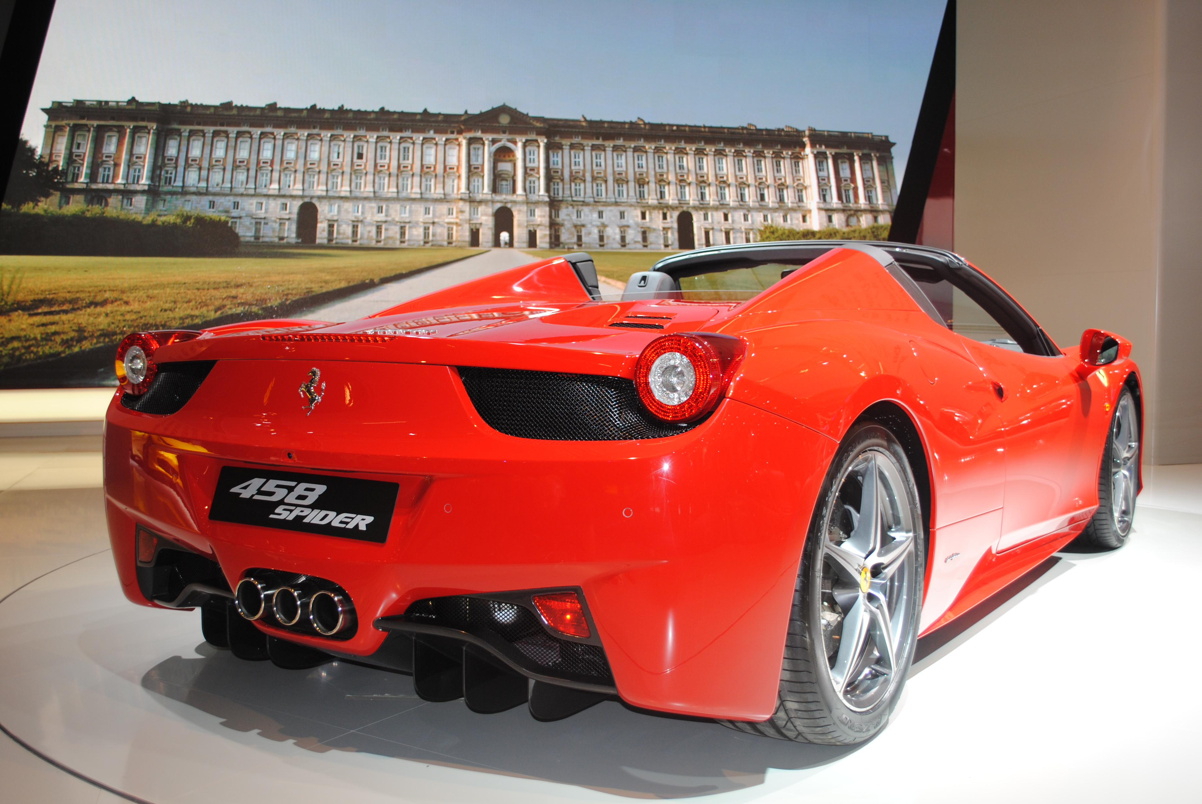 More photos and info